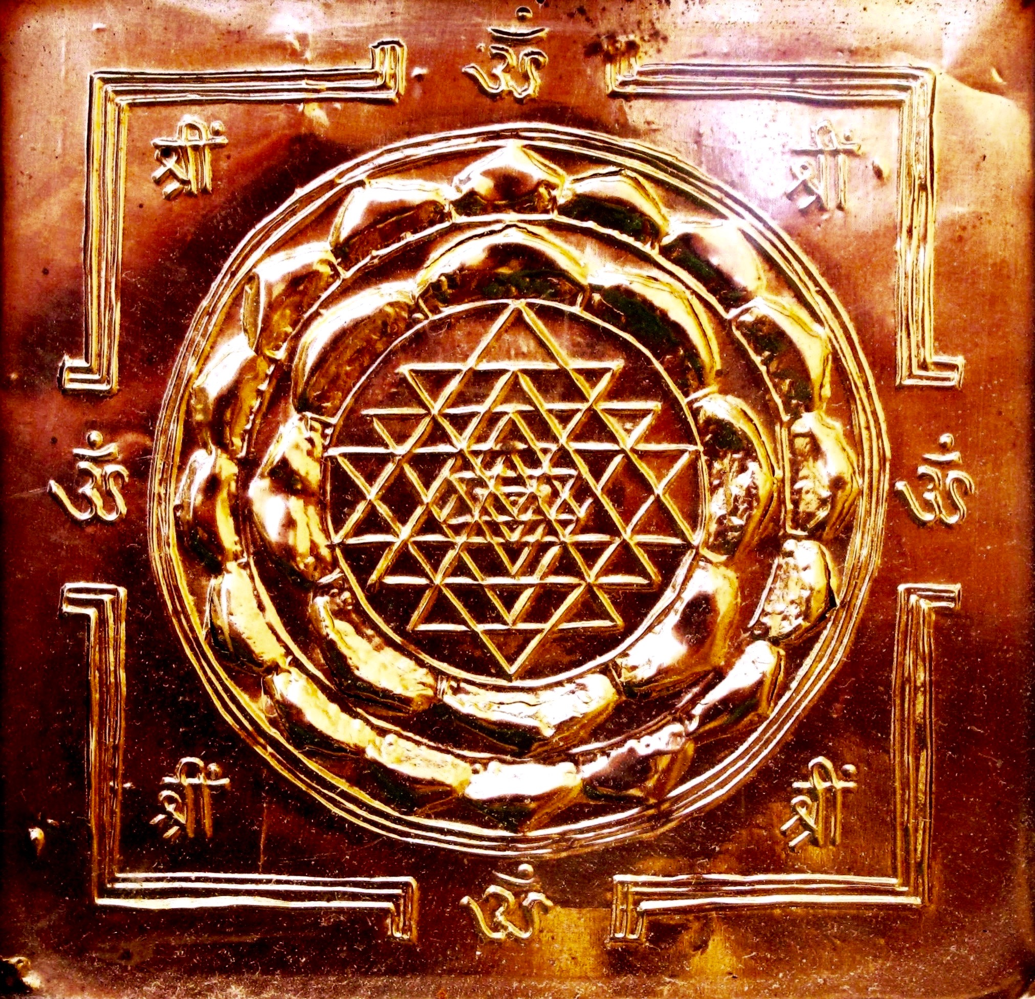 A derivative work on wikimedia image Sri Yantra copper.jpg